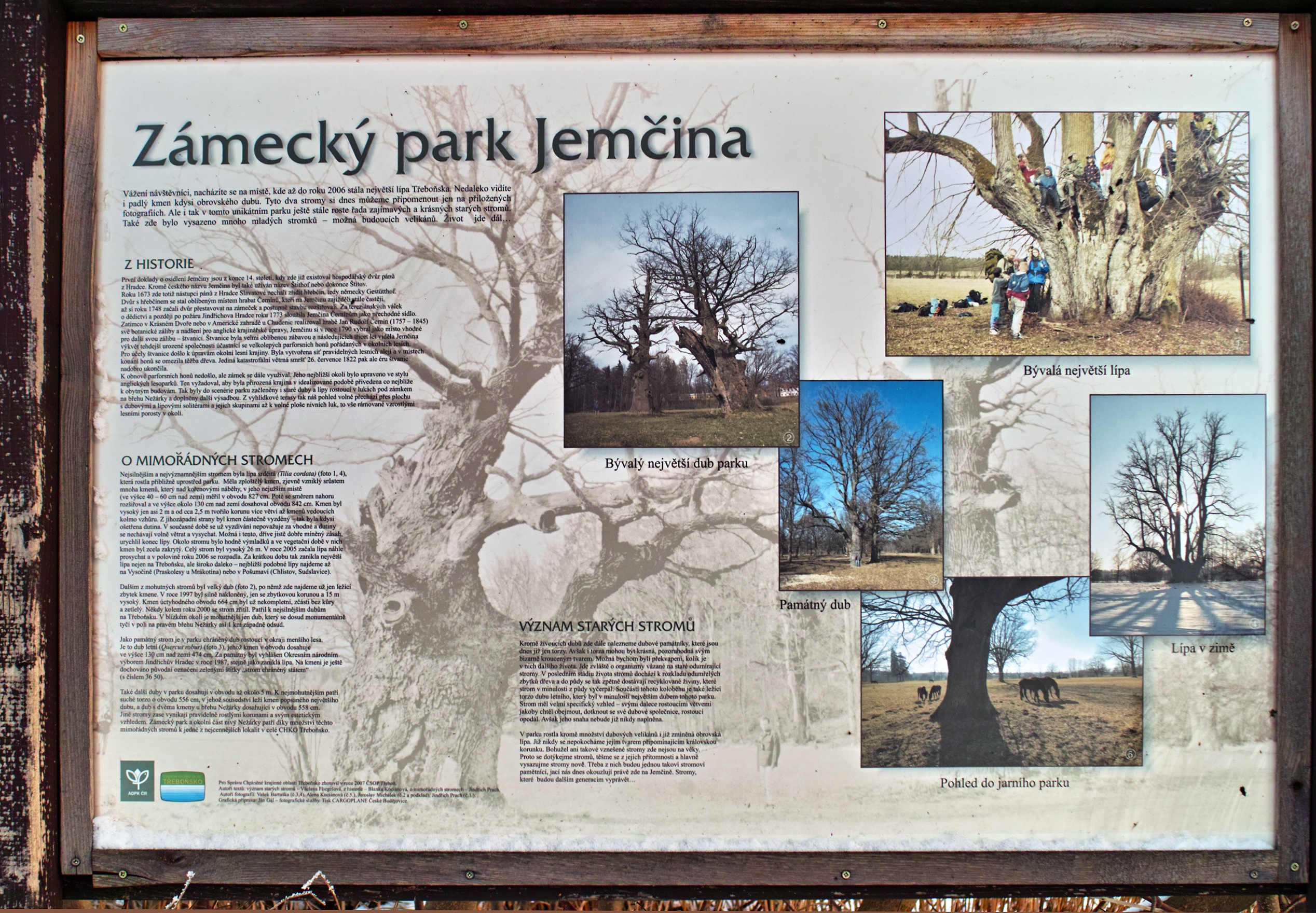 Signboard in English park near castle Jemcina, Czech Republic